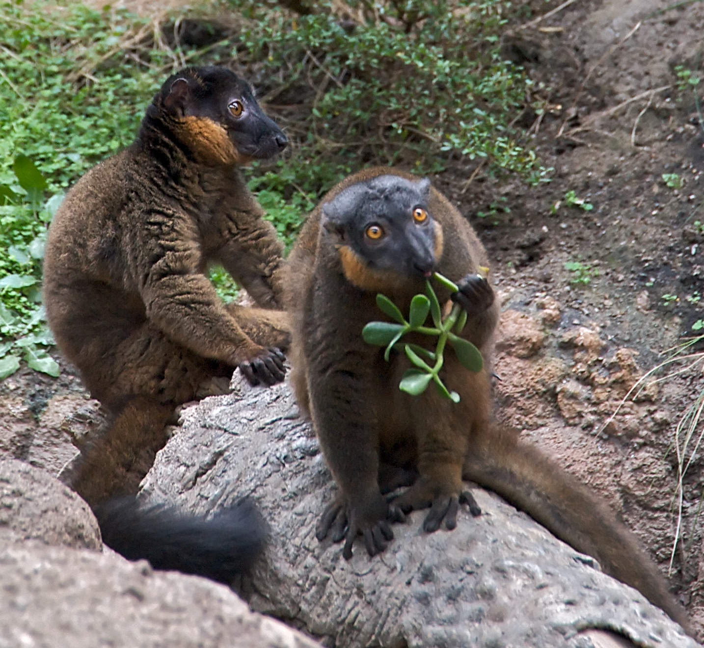 Collared Brown Lemur at the Bronx Zoo. This is a cropped version of File:Collared Brown Lemur Eulemur collaris Bronx Zoo.jpg.